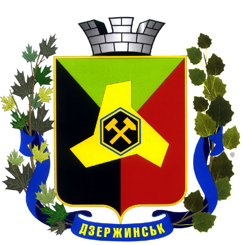 Coat of Arms of Dzerzhynsk, Donetsk Oblast, Ukraine